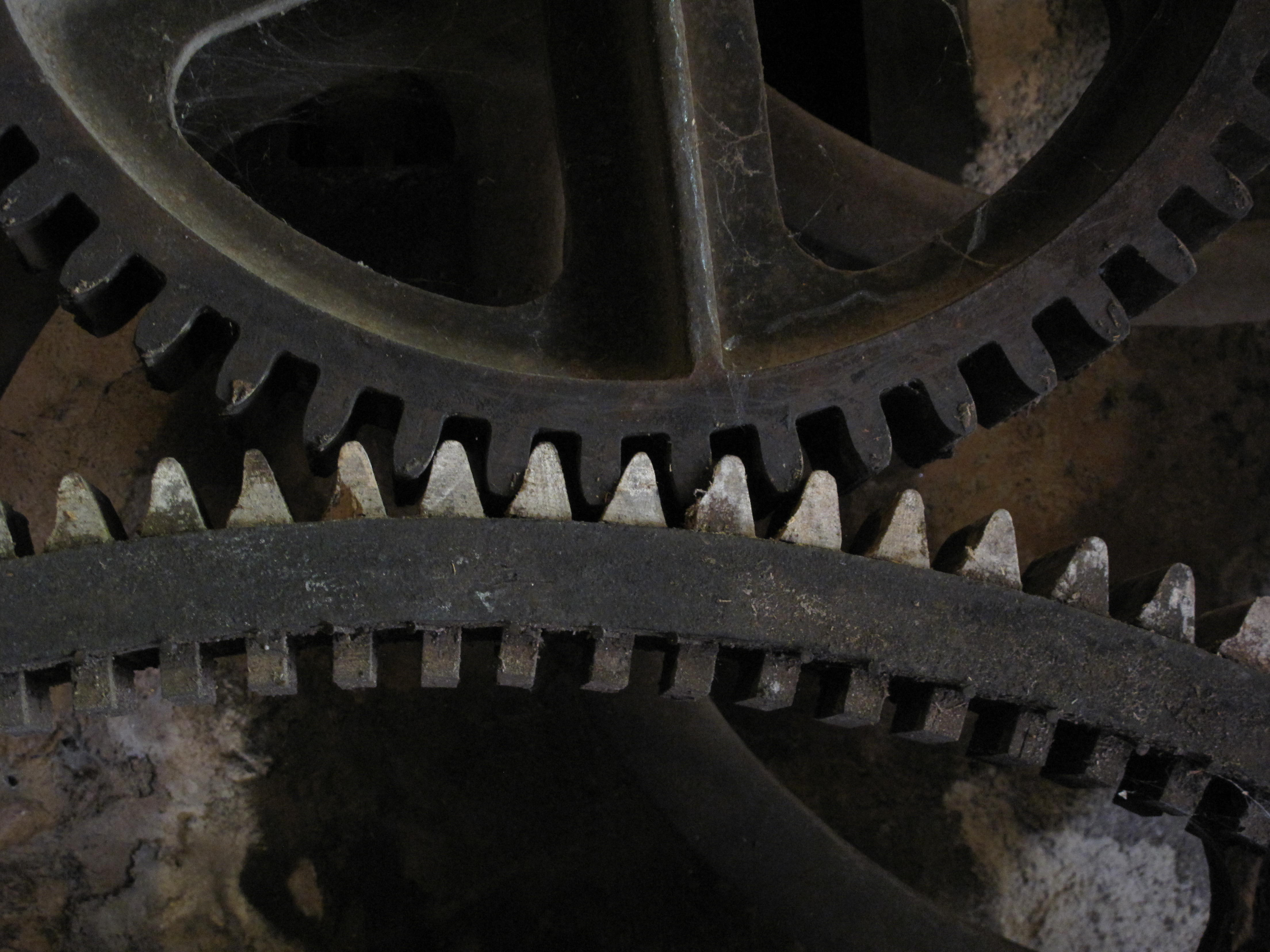 Closeup of the cog wheels of the mill of Storckensohn (Haut-Rhin, France). The teeth of the upper wheel are in steel. Those of the other one in wood. When broken, they can be easily changed.